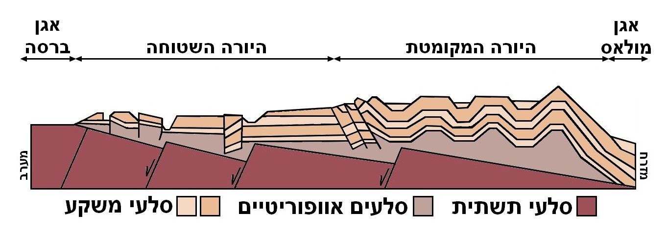 Geological cross section of the Jura Mountains (Hebrew)